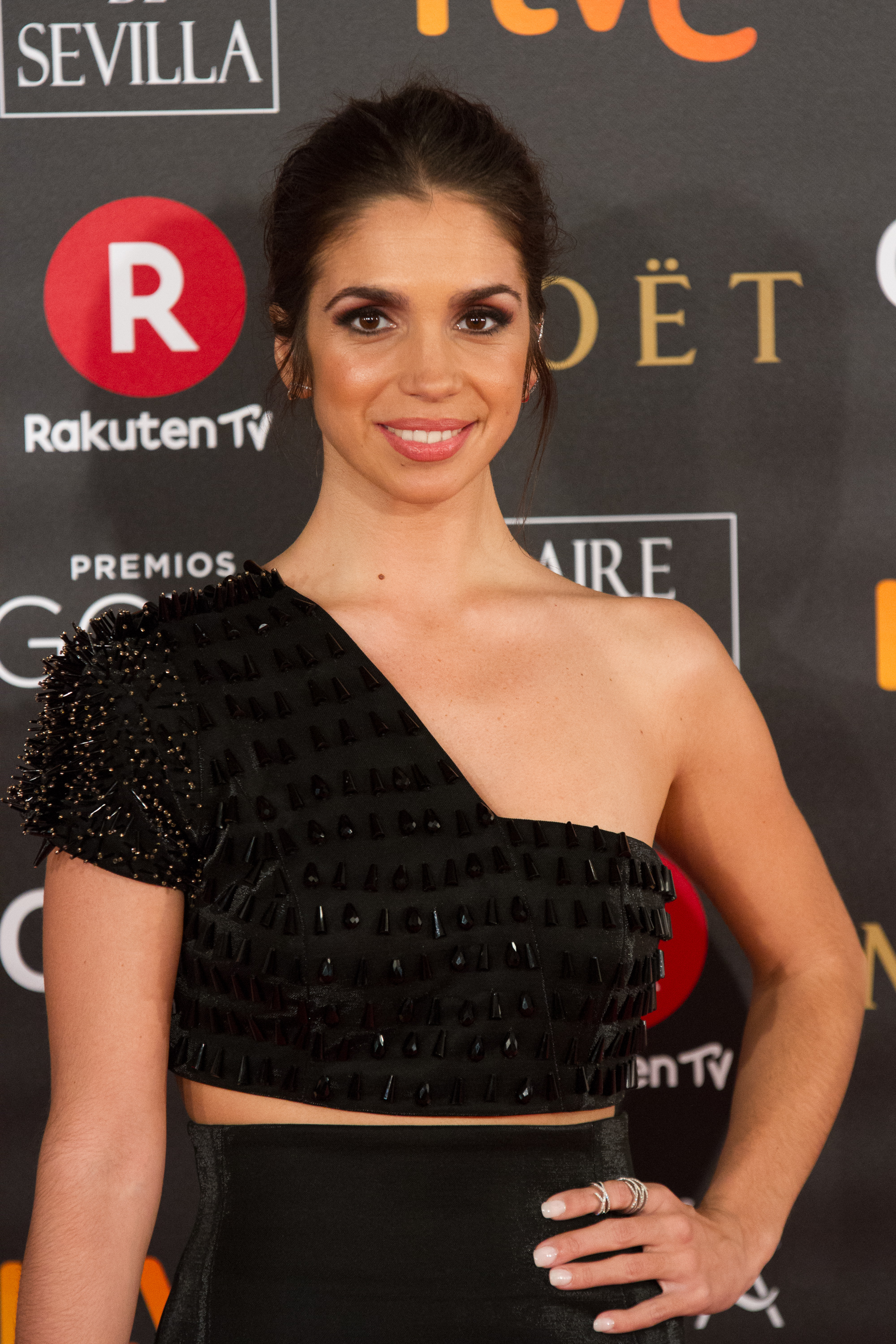 32nd Goya Awards, 2018.